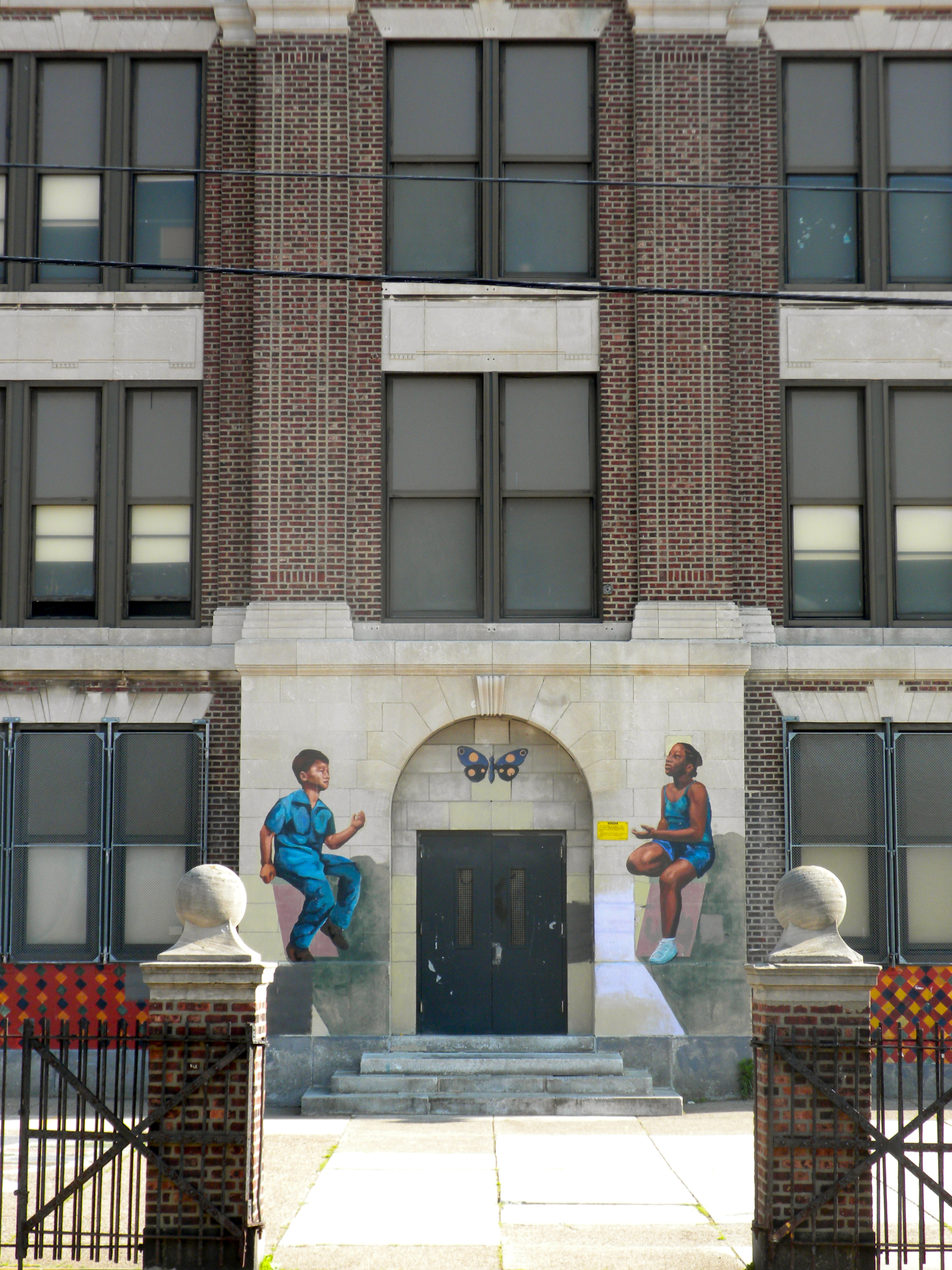 Entrance at Edwin H. Vare Junior High School, which has been on the NRHP since November 18, 1988. At 2100 South 24th Street in Wilson Park neighborhood of south Philadelphia